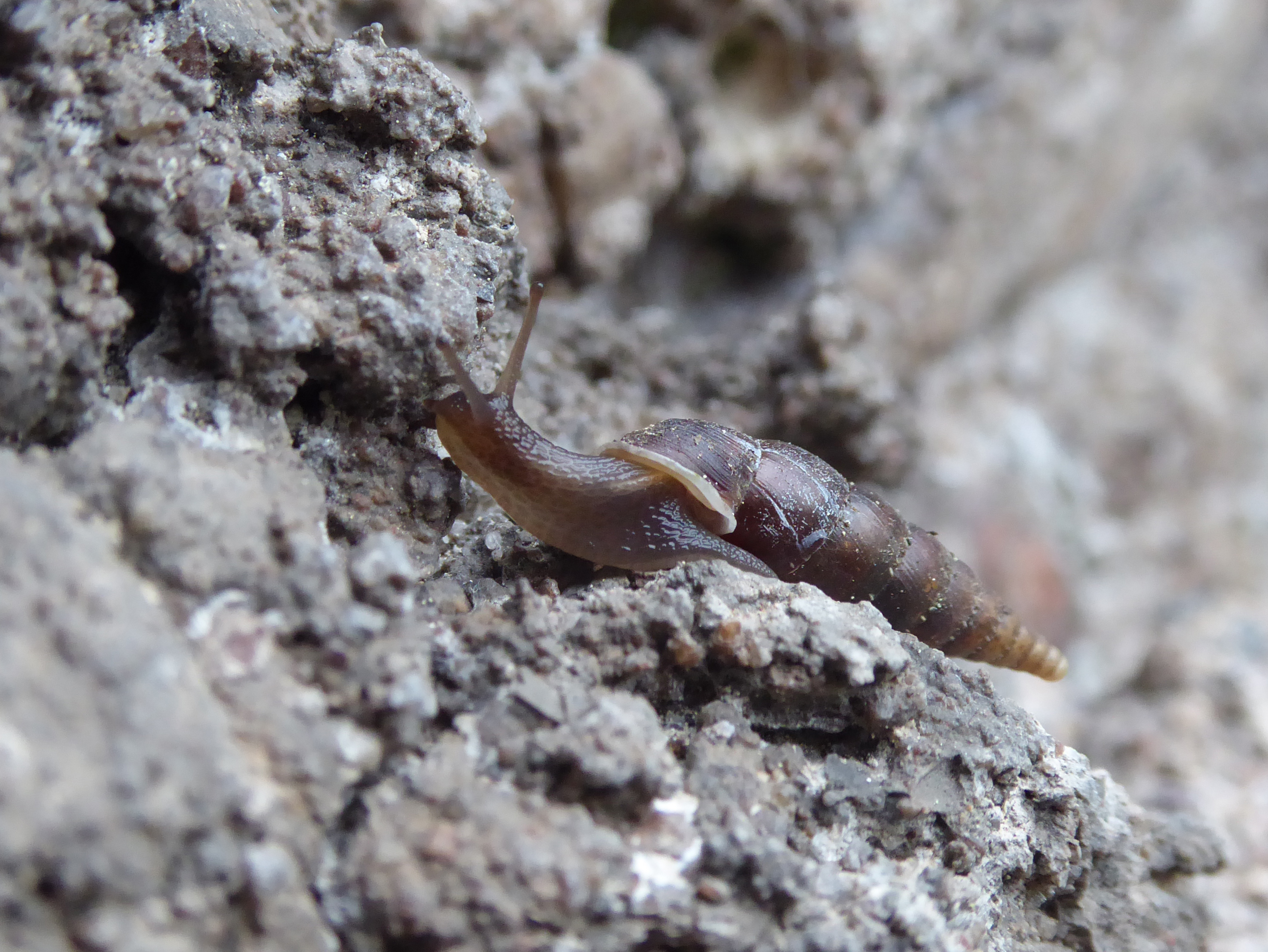 A Charpentieria itala photographed on a wall in Piazzo (Segonzano, Trentino, Italy)